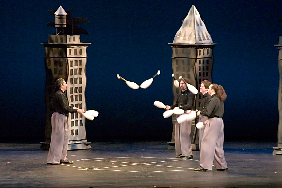 The Flying Karamazov Brothers in "LIFE: A Guide for the Perplexed"